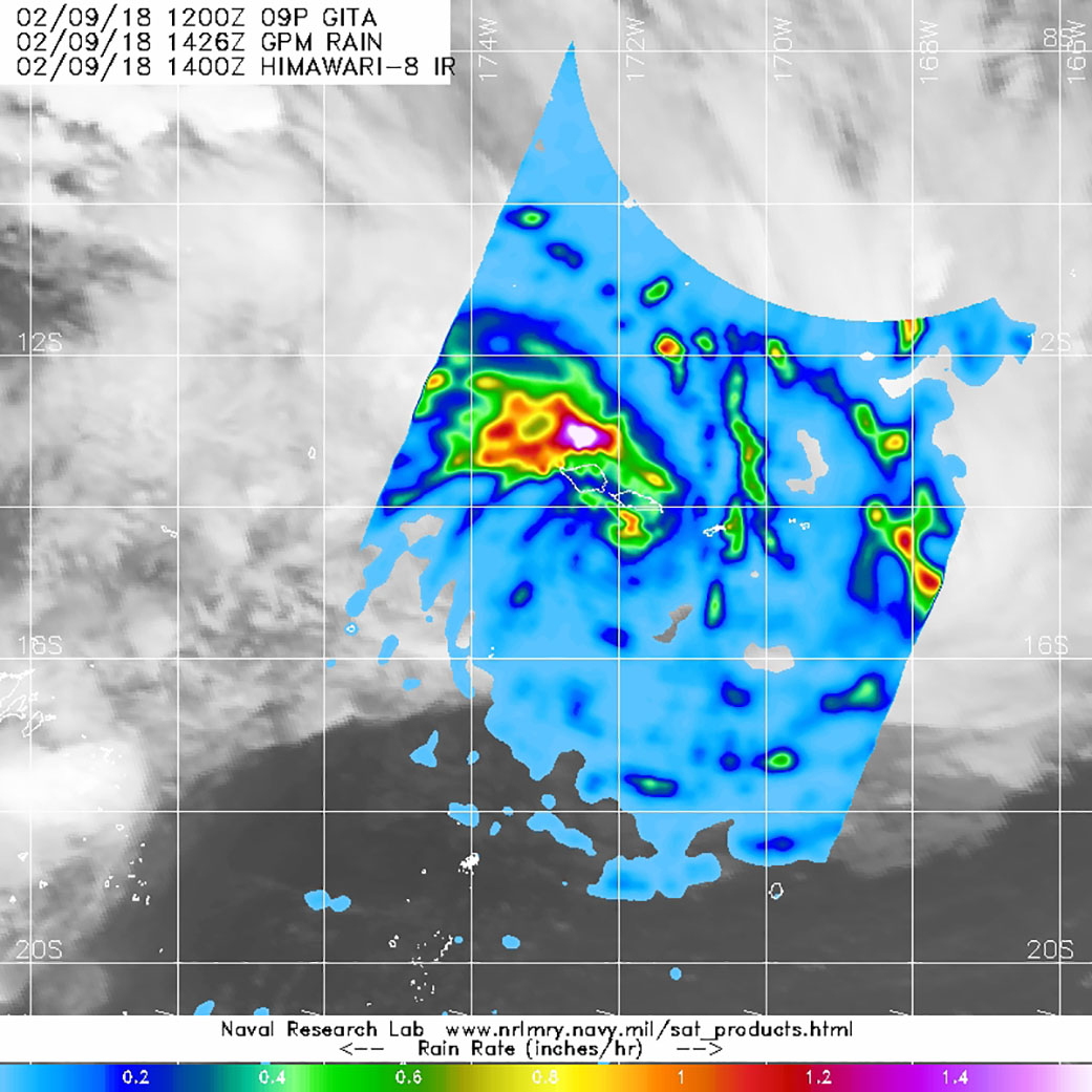 On Feb. 9 at 9:26 a.m. EST (1426 UTC) GPM found heaviest rainfall from storms northwest of the Gita’s center dropping rain at a rate of greater than 1 to 1.6 inches per hour. Rainfall in fragmented bands of thunderstorms east of the center were dropping rainfall up to 1 inch per hour. GPM data was overlaid on infrared data from Japan’s Himawari-8 satellite in this image.